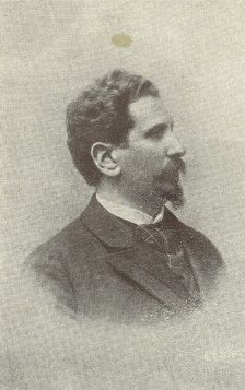 Nahum Sokolow (1859-1936)